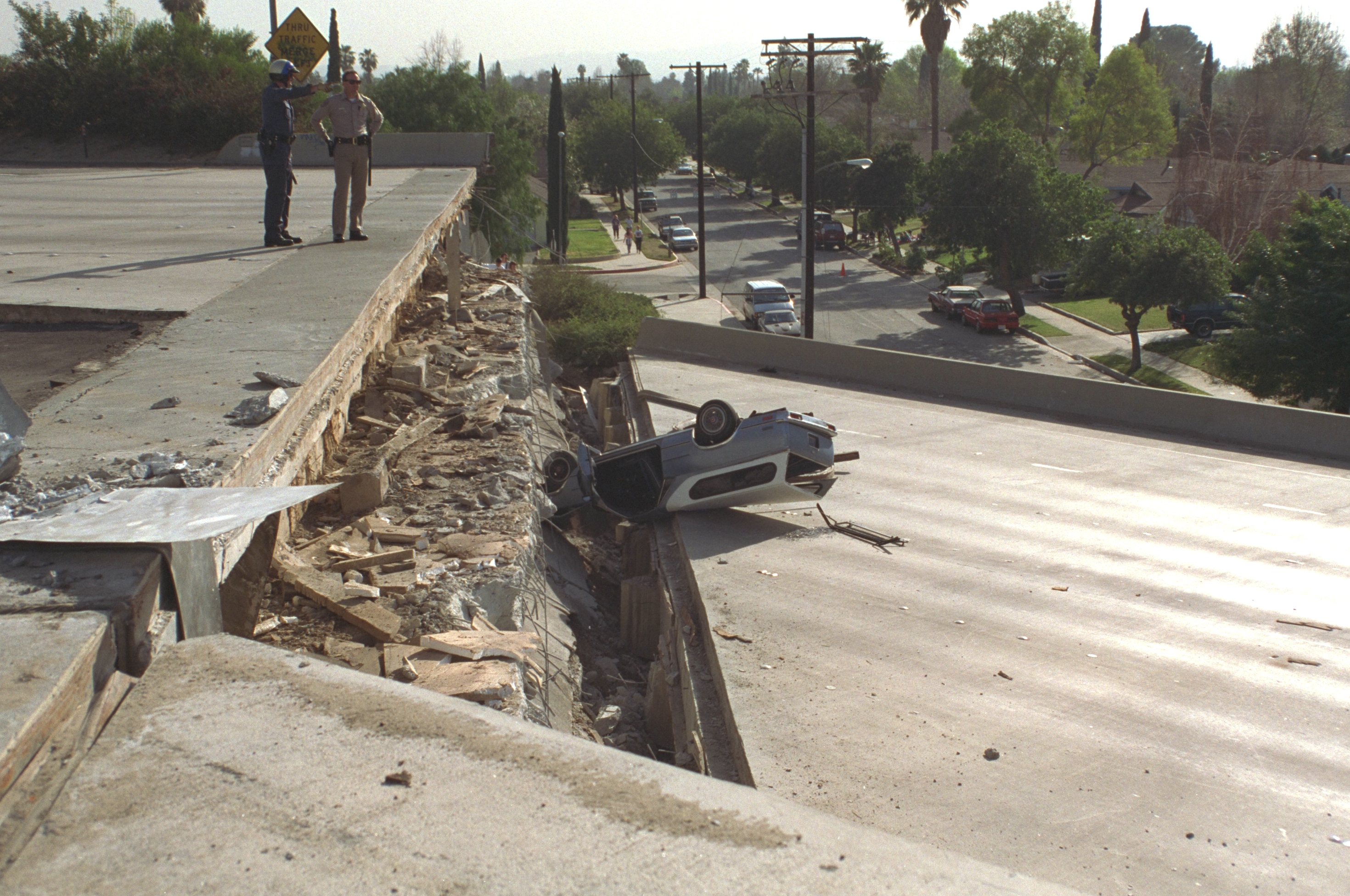 Northridge Earthquake, CA, January 17, 1994 -? Many roads, including bridges and elevated highways were damaged by the 6.7 magnitude earthquake. Approximately 114,000 residential and commercial structures were damaged and 72 deaths were attributed to the earthquake. Damage costs were estimated at $25 billion. FEMA News Photo